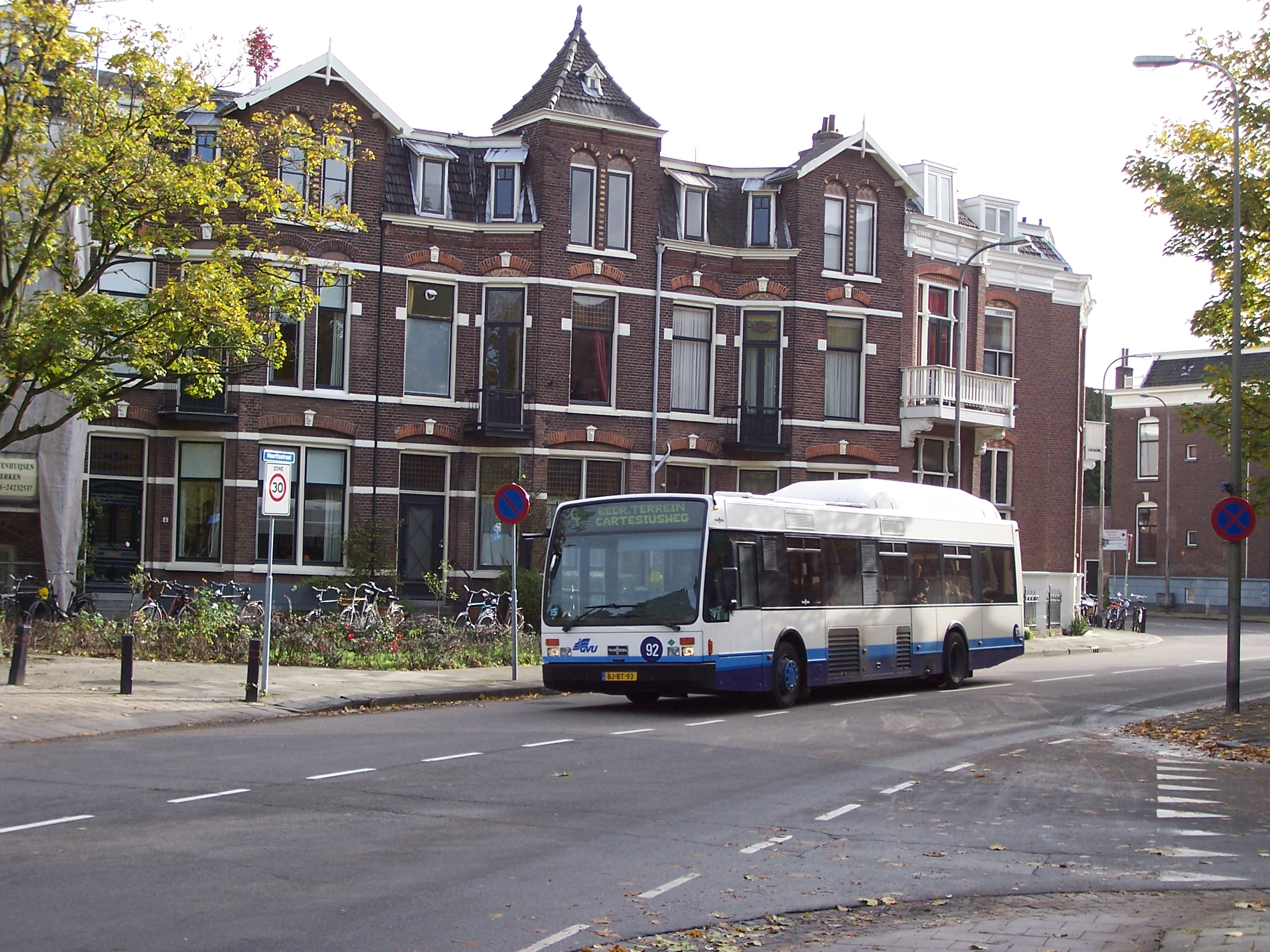 Van Hool CNG city bus in Utrecht.